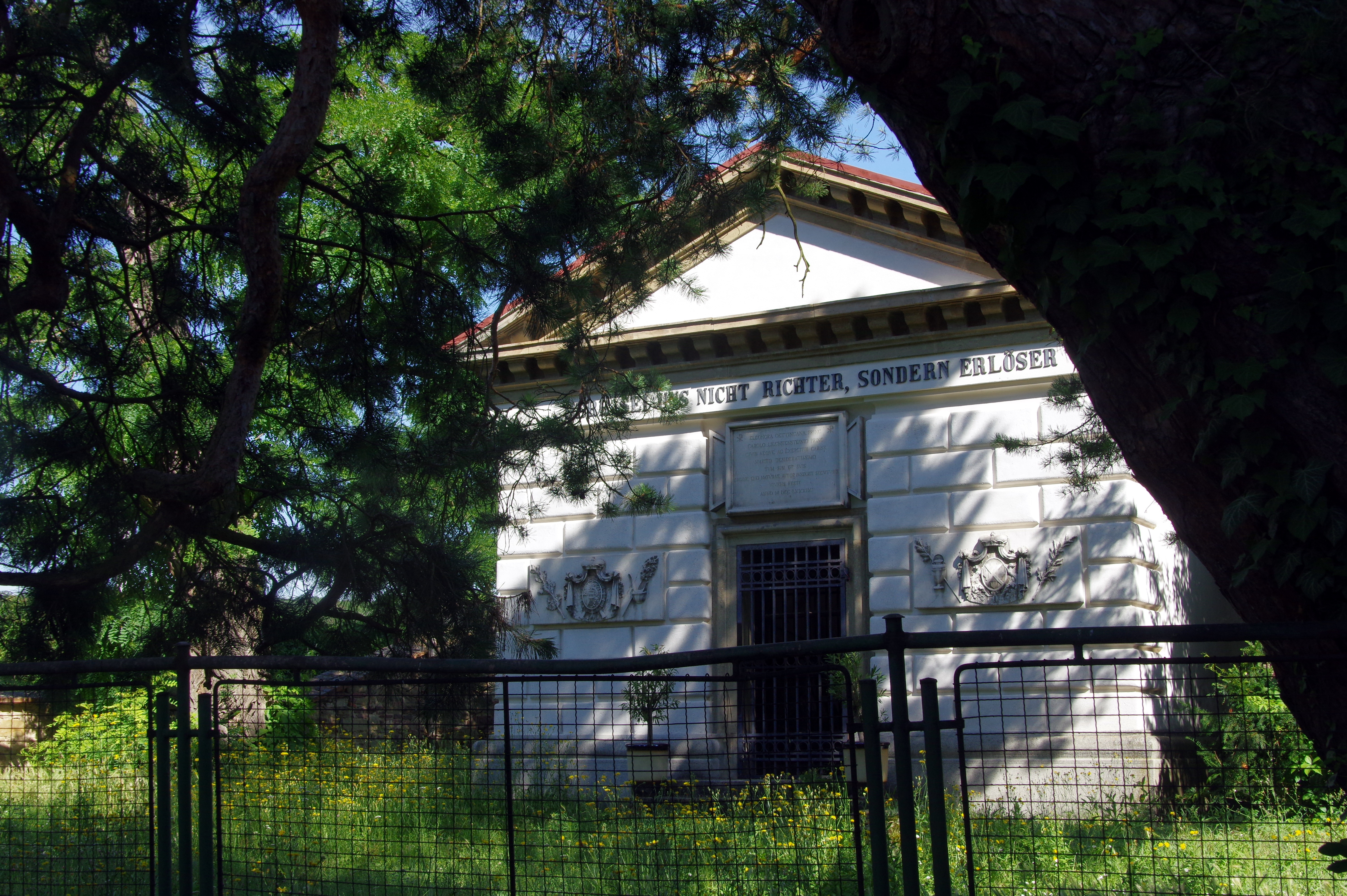 8.7.16 Moravsky Krumlov